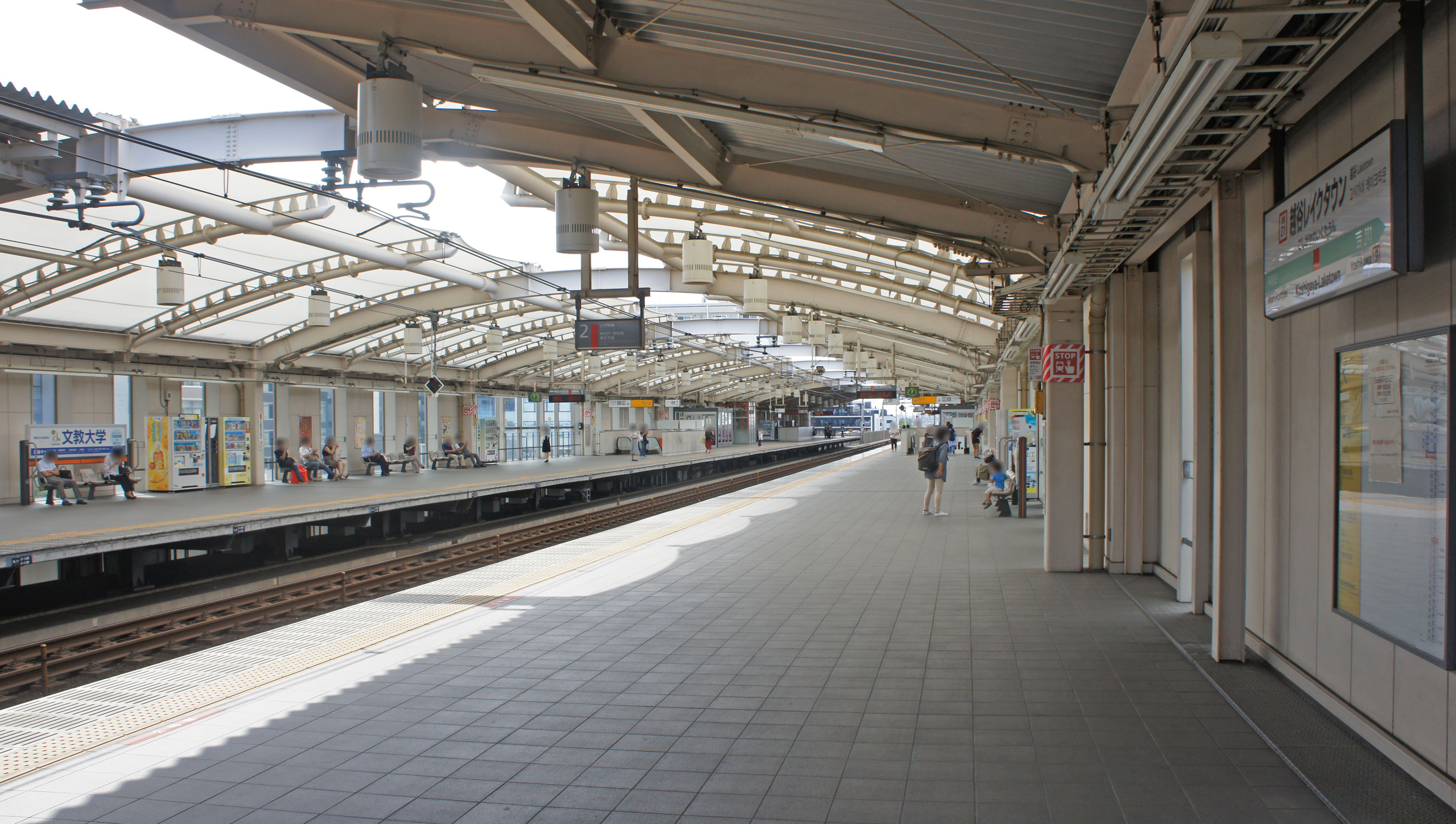 Platform of JR Musashino-Line Koshigaya-Laketown Station